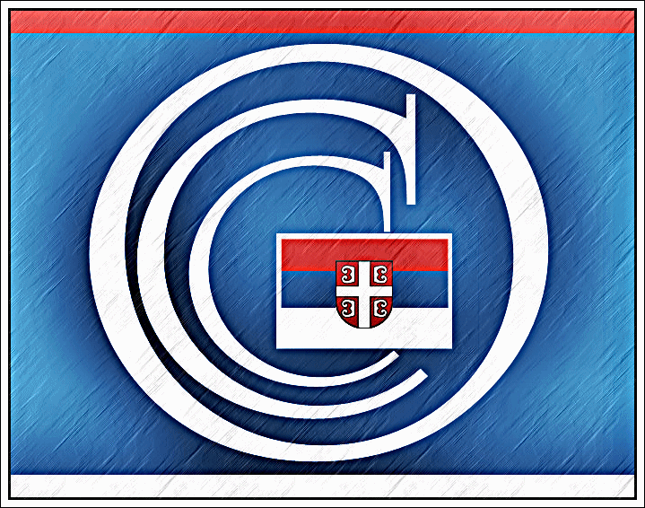 Отаџбинска српска странка